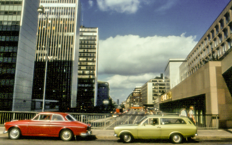 Sveavägen in 1974